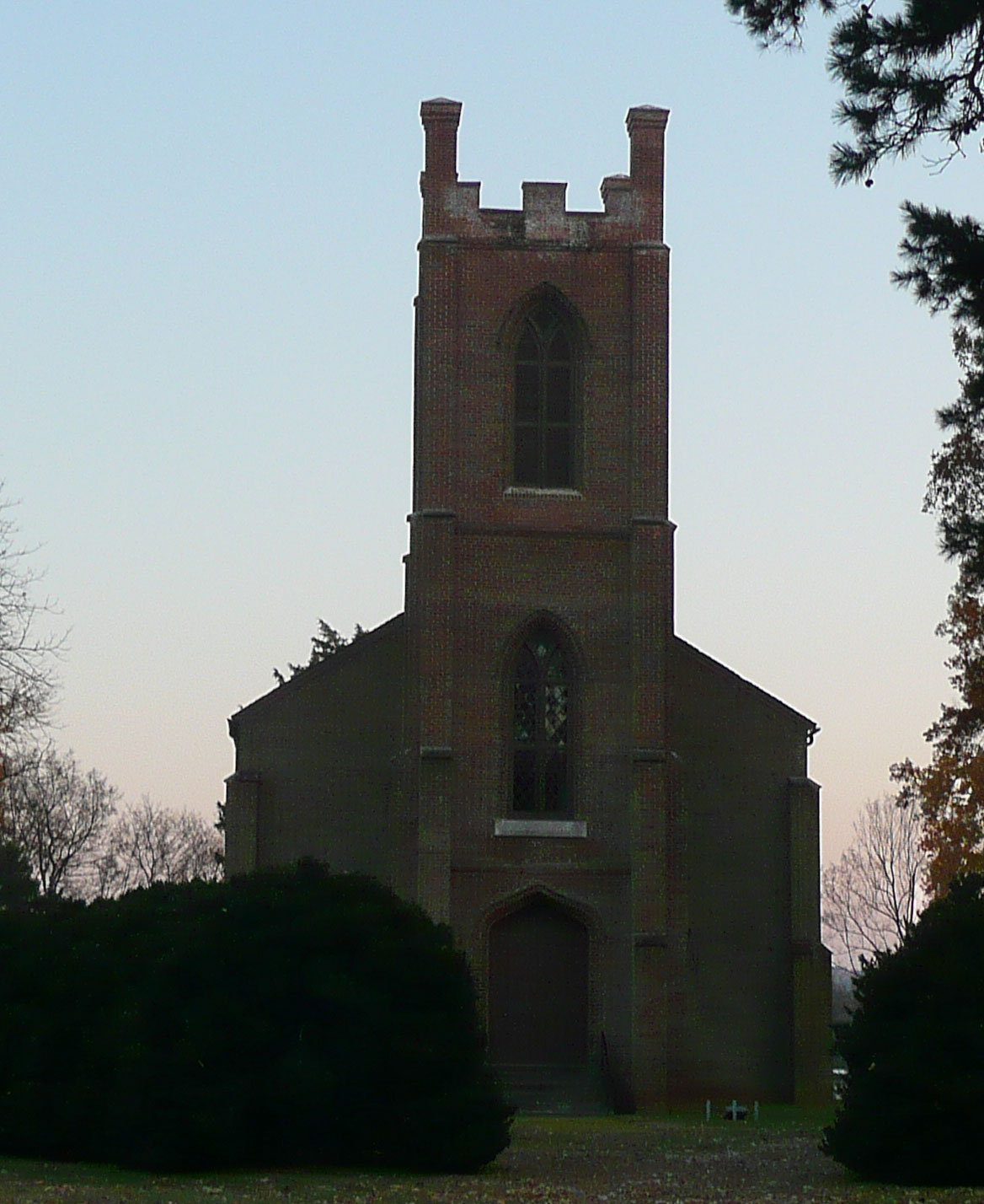 Photograph of St. John's Church, Columbia, Tennessee.